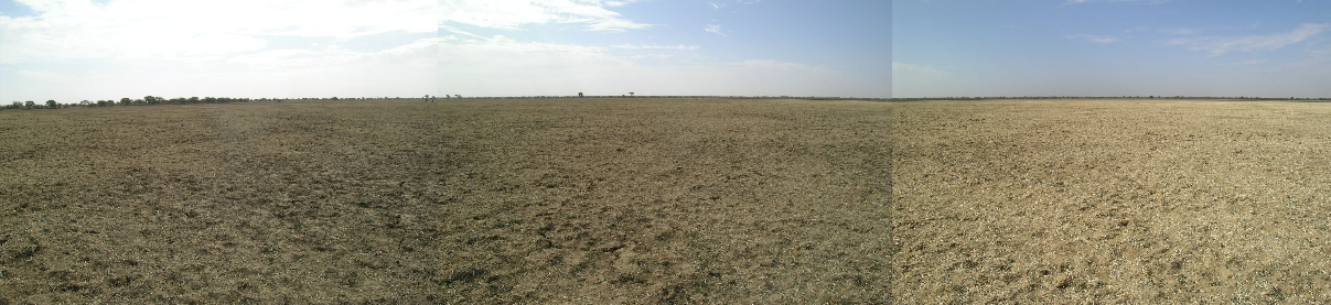 dry lake around Dori, in Séno Province, Sahel Region, North-East of Burkina Faso, West-Africa.